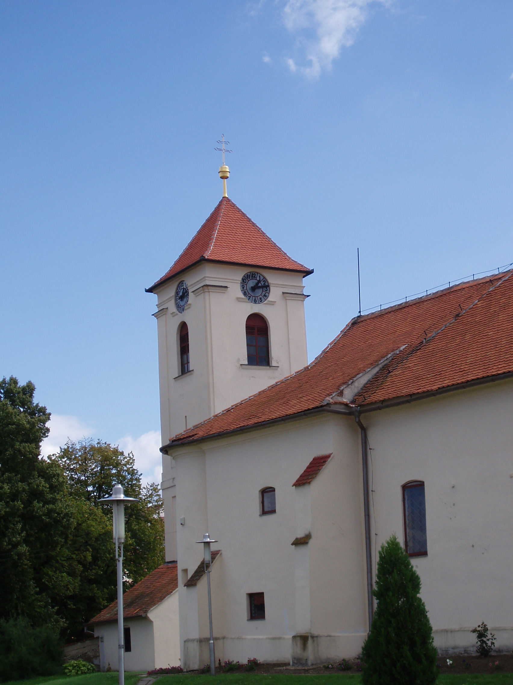 St George church in Kobylí, Czech Republic. The bell tower in the background is a separate building.